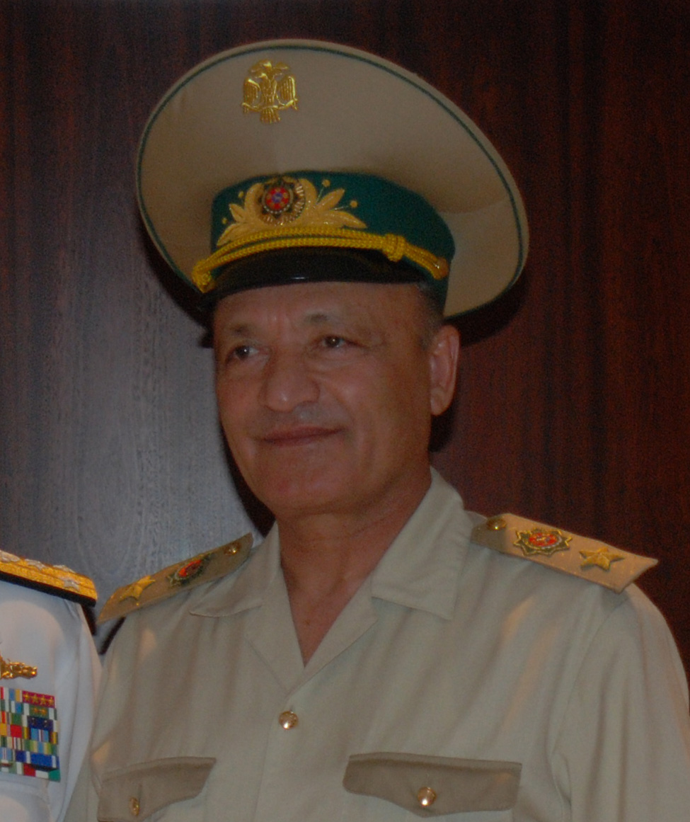 Turkmen Minister of Defense, Gen. Agageldi Mammetgeldiyev at the ministry of defense in Ashgabat, Turkmenistan